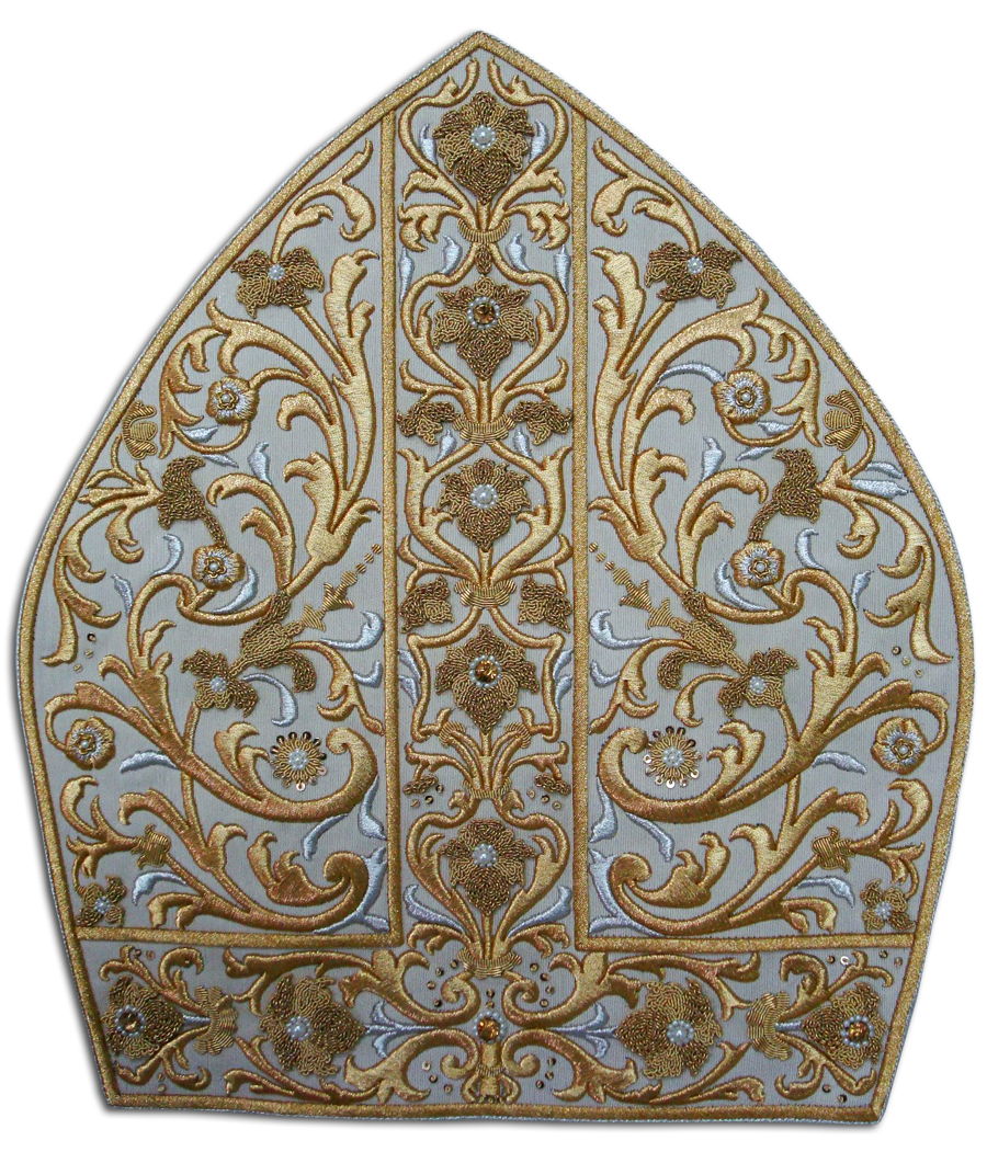 Mitre in baroque stile, hand embroidered with gold and silver threads, with pearls in a setting of gilded silver